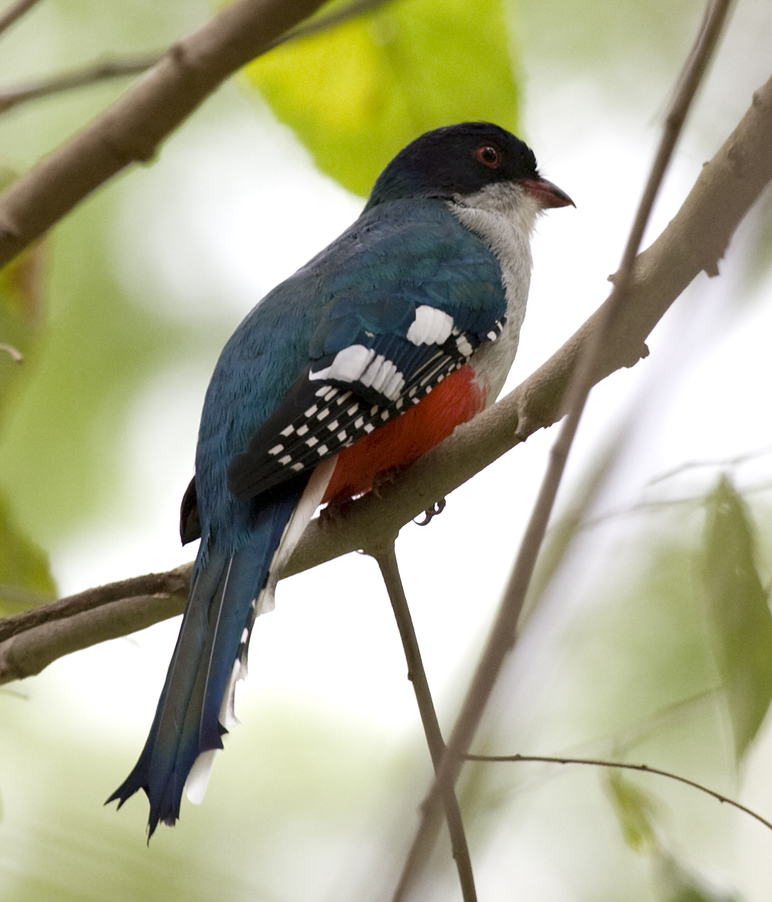 A Cuban Trogon in Camagüey, Camagüey Province, Cuba.